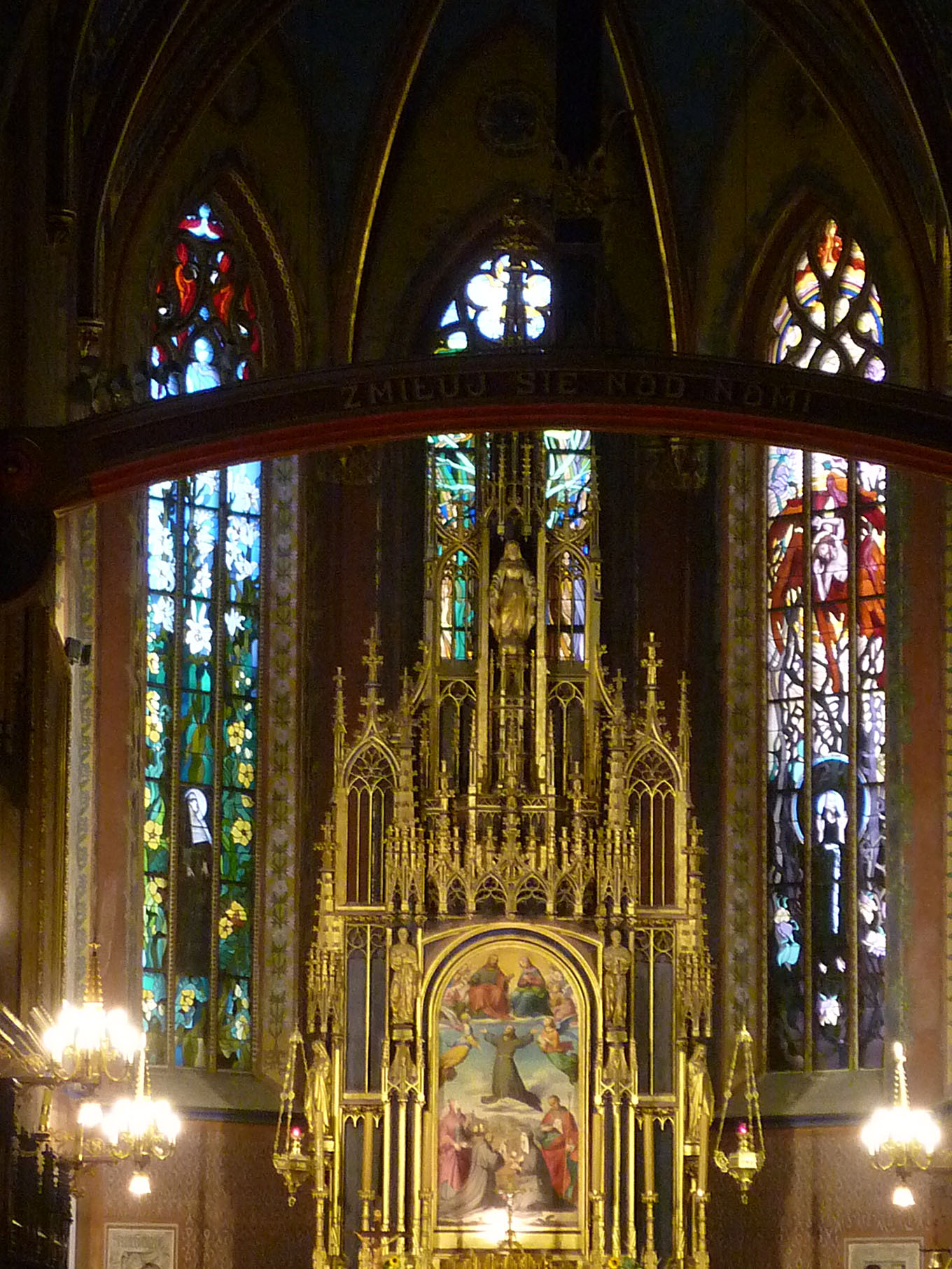 High Altar at the Church of St. Francis of Assisi with Monastery of the Franciscan Order (Polish: Kościół św. Franciszka z Asyżu) located in the Old Town district of Kraków, Poland. Stained glass by Stanisław Wyspiański.